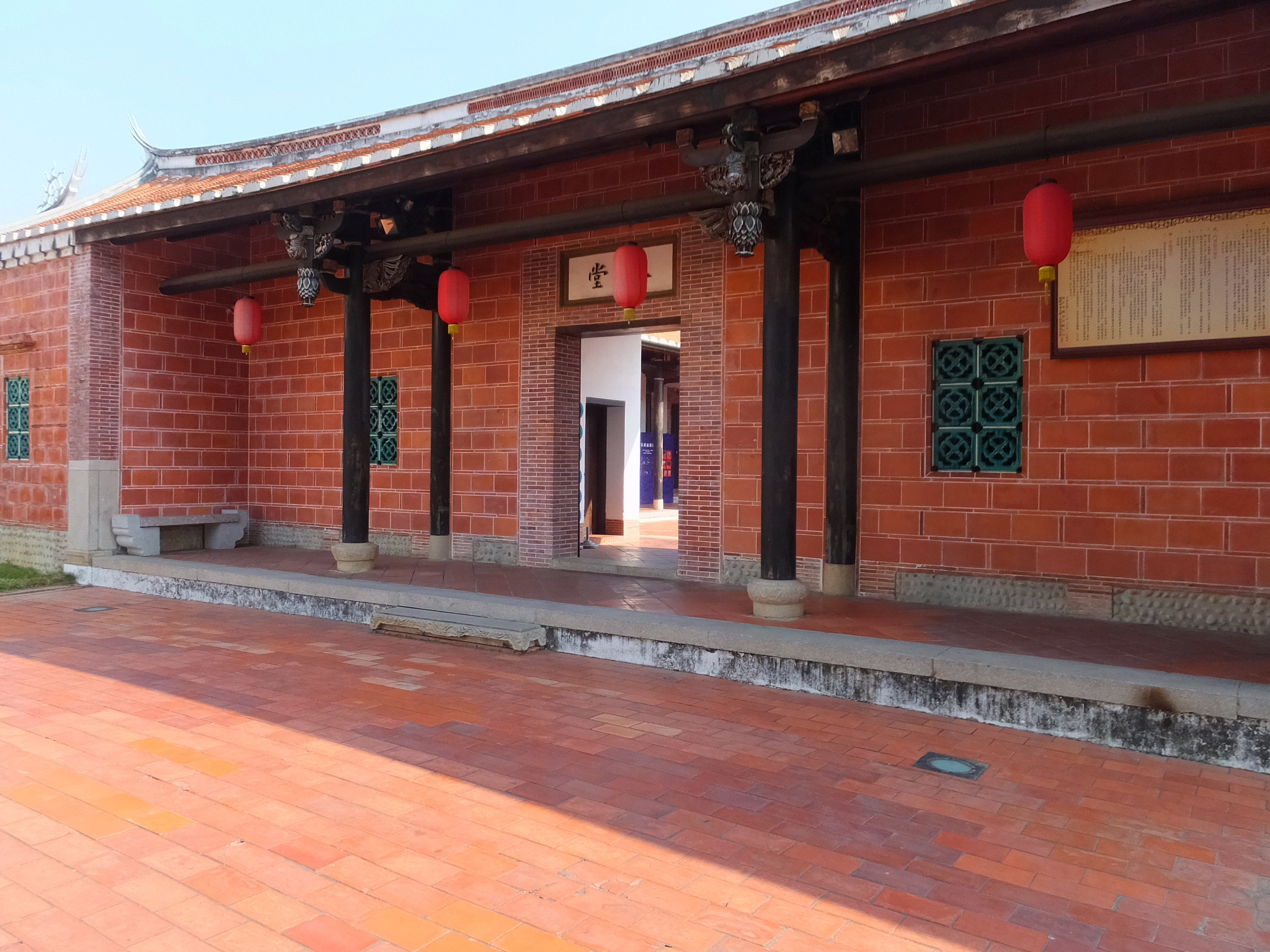 The Lin House Complex at Wufeng 霧峰林家